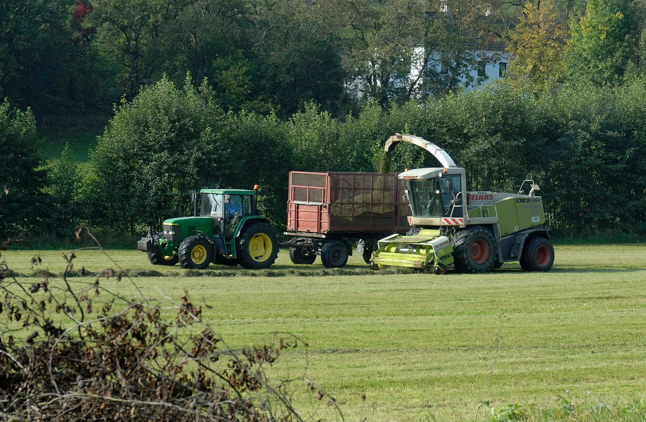 Forage harvester in Lower Austria.